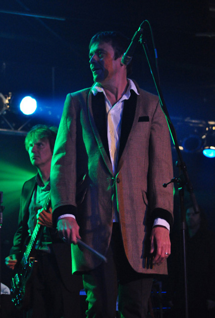 Spider Stacy, Milk club, Moscow, 29 Aug 2010